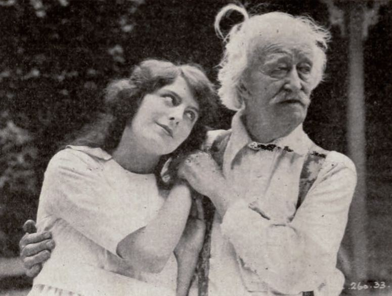 Still from the American drama film Rainbow (1921) with Alice Calhoun and William J. Gross (1837 – 1924) (not identified in the caption), on page 76 of the October 1, 1921 Exhibitors Herald.